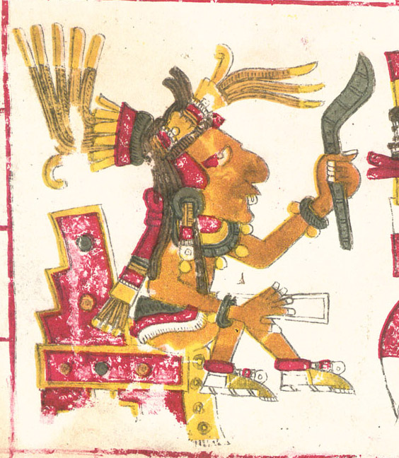 God Tepoztecatl, described in the Codex Borgia.